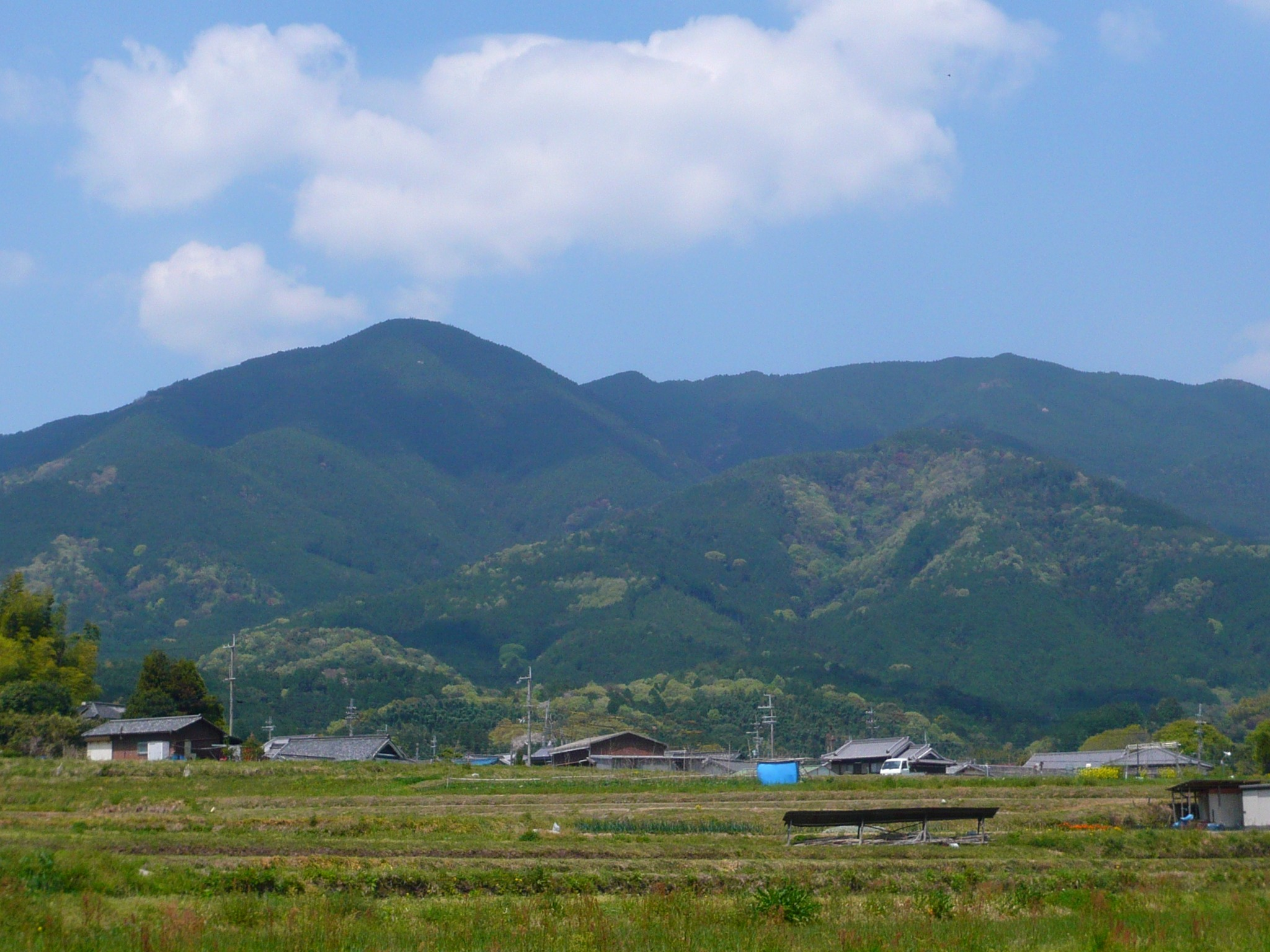 The southeast side of Mount Kongo.